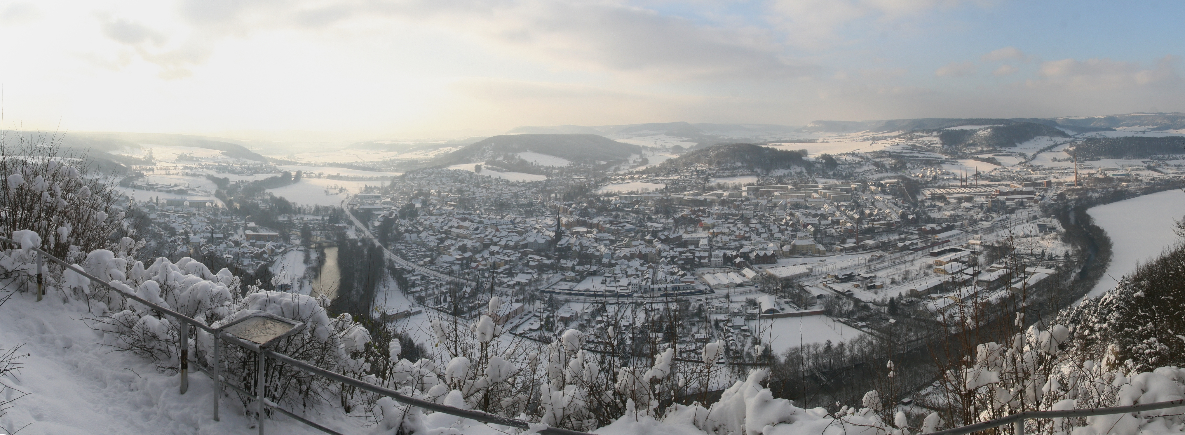 Panoramic view of the city of Kahla seen from Dohlenstein. NOTE: This image is a panorama consisting of multiple frames that were merged or stitched in software. As a result, this image necessarily underwent some form of digital manipulation. These manipulations may include blending, blurring, cloning, and colour and perspective adjustments. As a result of these adjustments, the image content may be slightly different from reality at the points where multiple images were combined. This manipulation is often required due to lens, perspective, and parallax distortions.